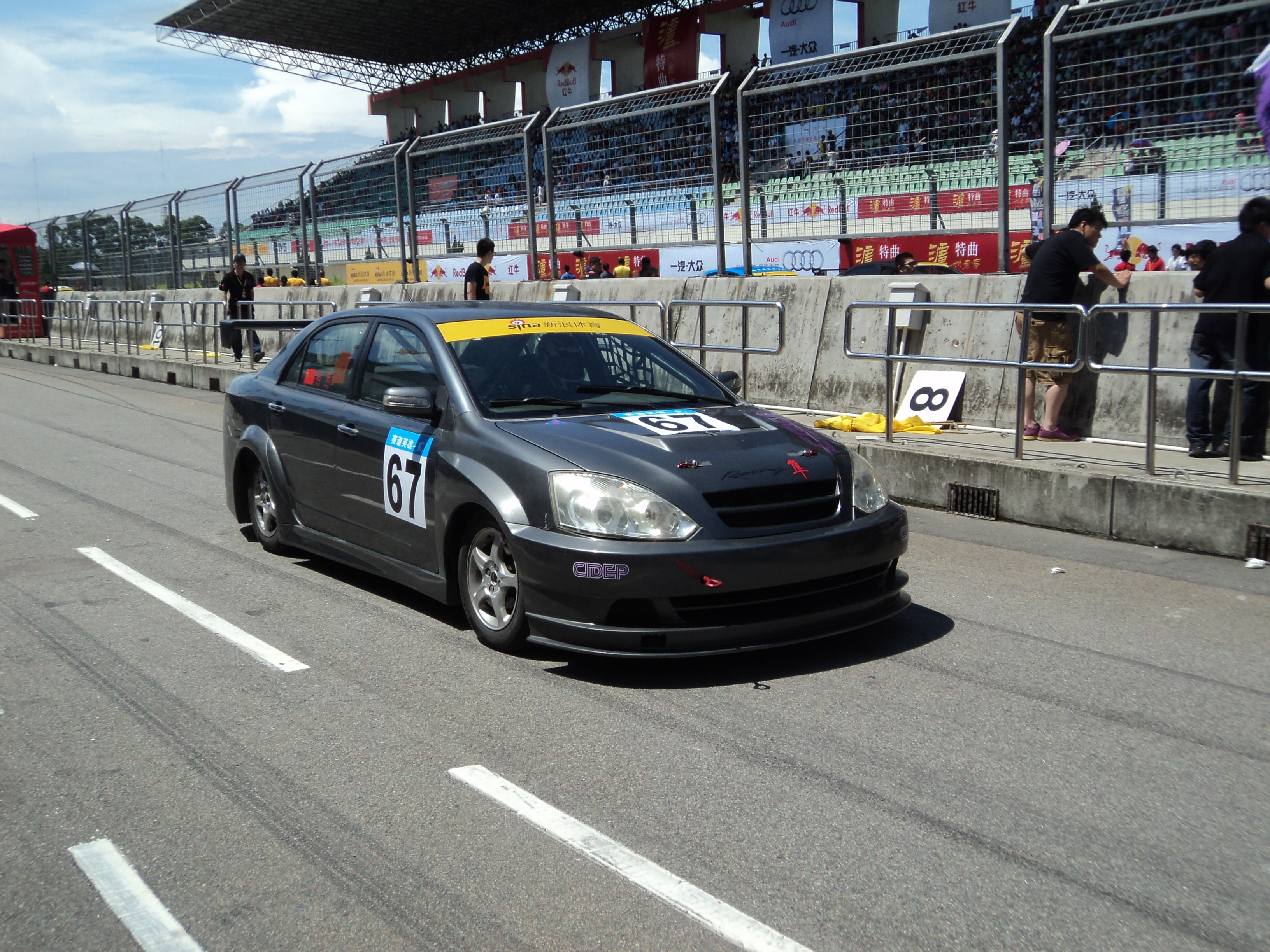 Geely Vision race car at 2011 Audi Pan Delta Super Racing Festival - Summer Race.